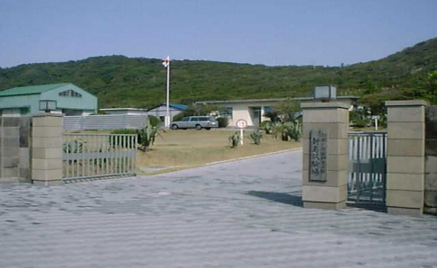 Main gate of Niijima Missile test-launching site